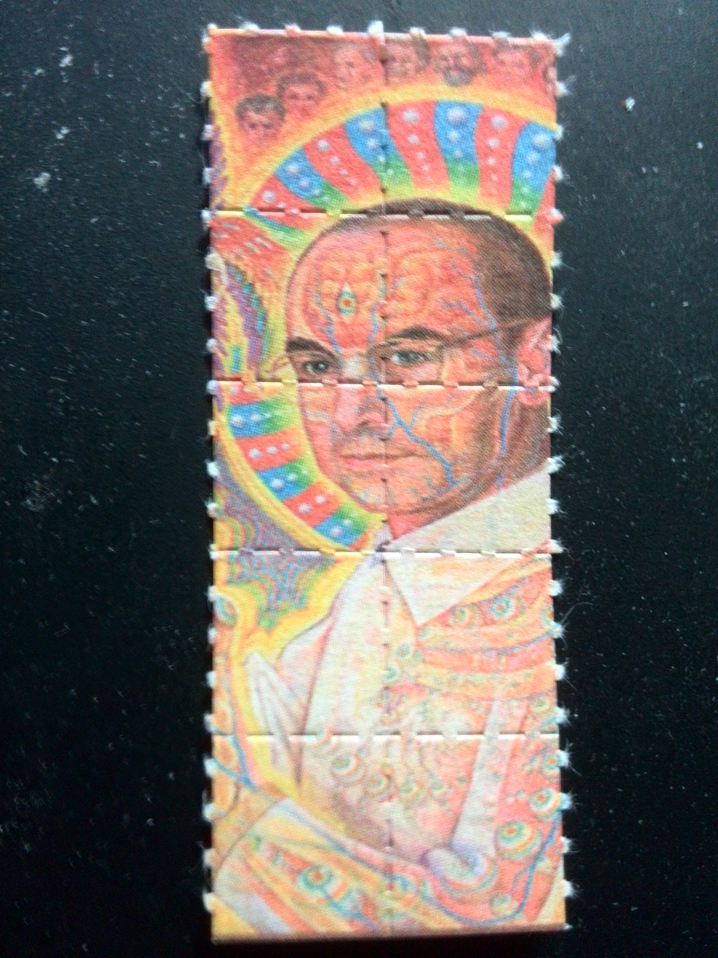 A tenstrip of "Alex Grey" Hofmann LSD blotters, dosed at 100-120 µg each.